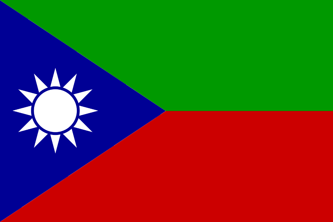 Unofficial Flag of Balochistan and the Baloch people